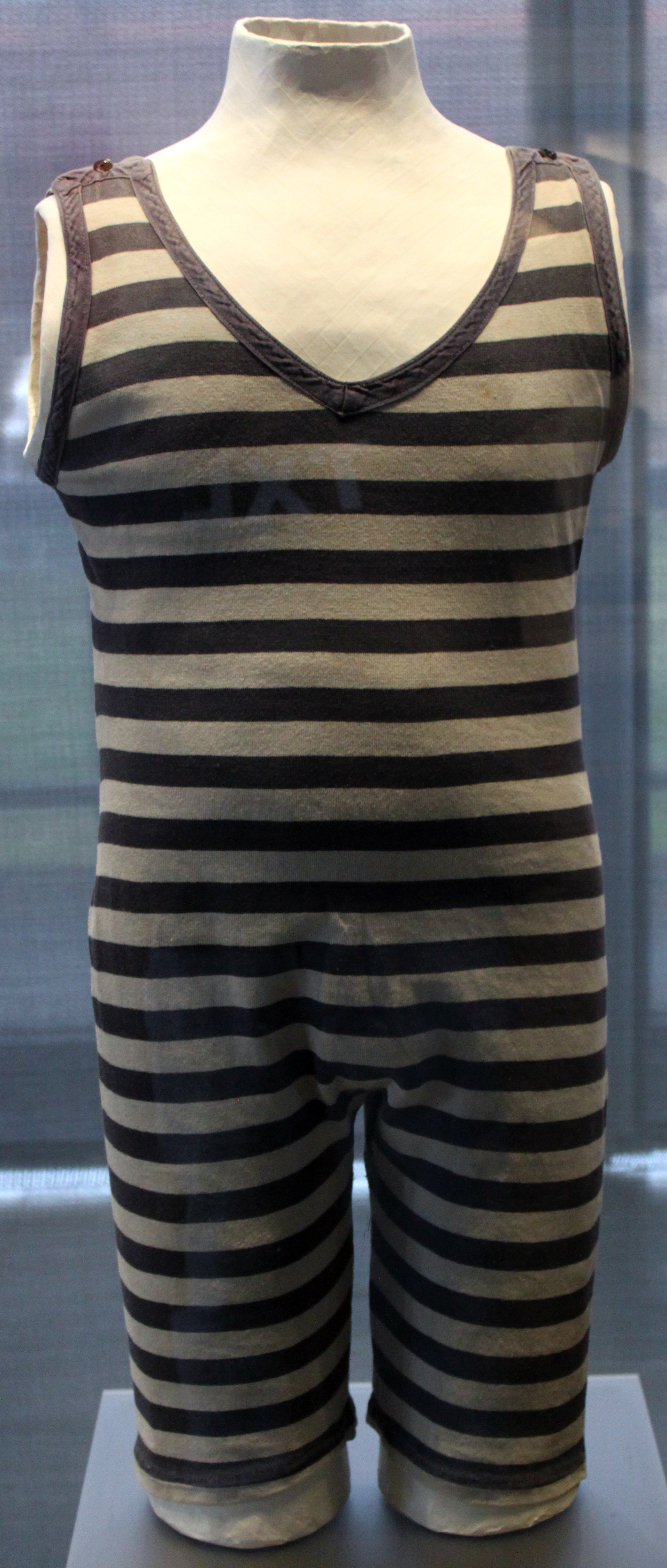 Man Swimsuit, 1920; Germanic National Museum in Nuremberg